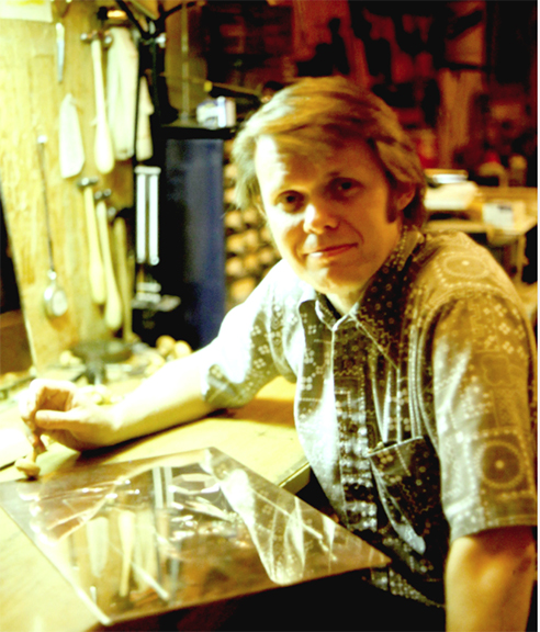 Evan Lindquist, born 1936 in Salina, Kansas, is an American printmaker-engraver and educator.